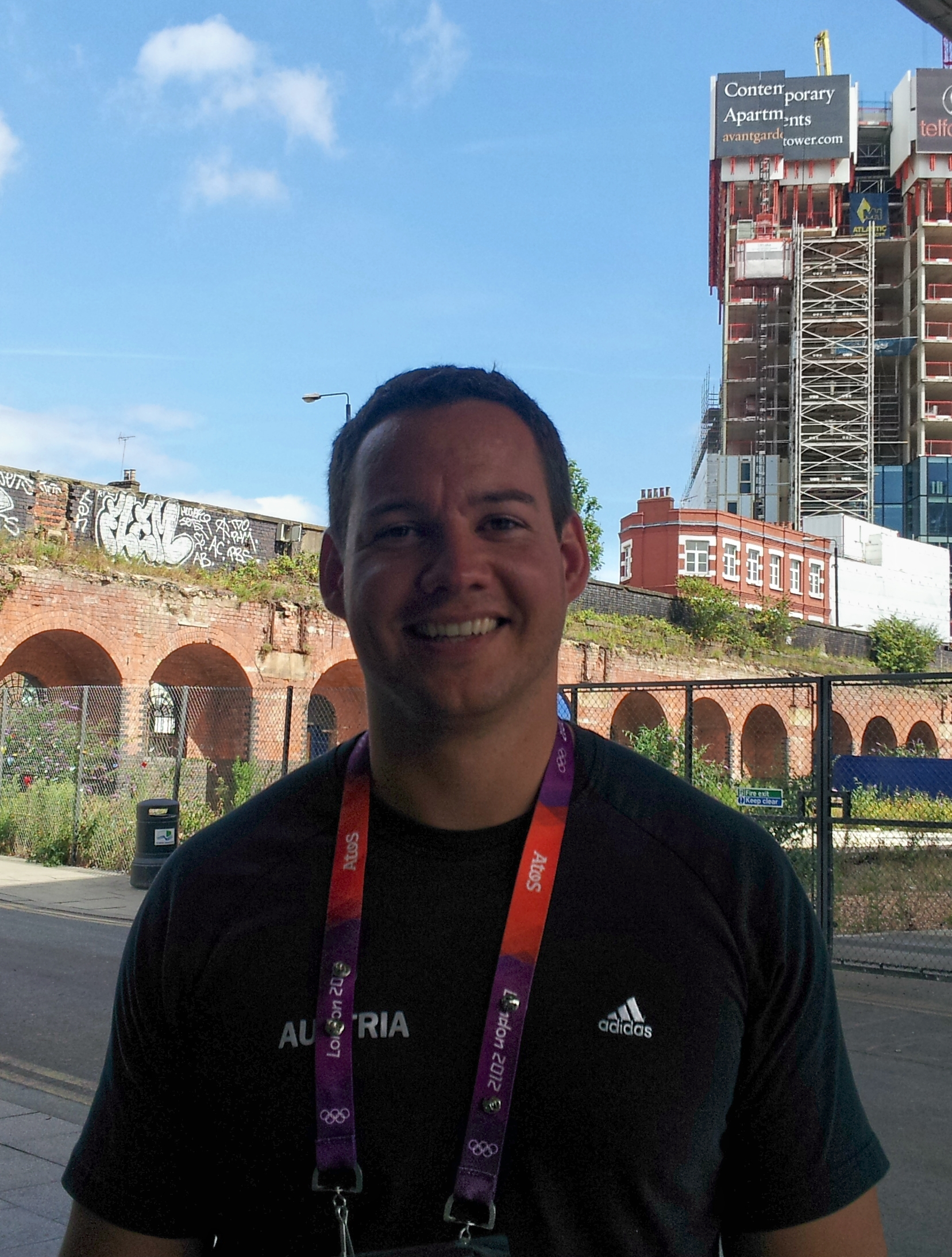 Austrian discus thrower Gerhard Mayer, taken at The London 2012 Summer Olympic Games